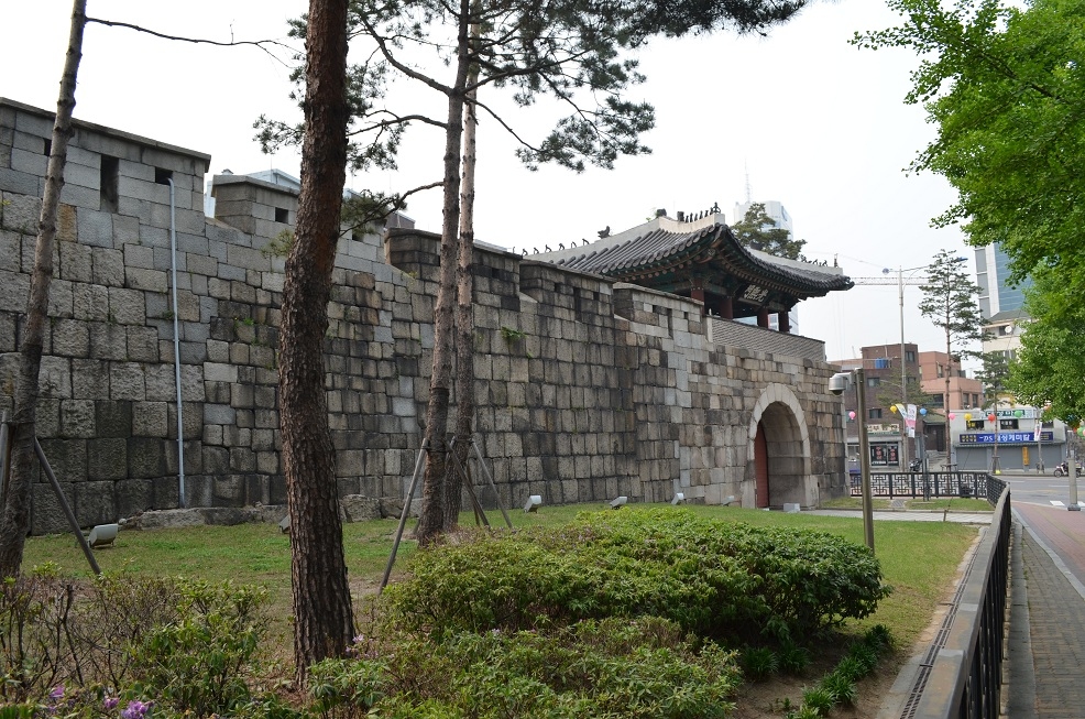 Gwanghuimun Gate, also known as Southeast Gate or Namsomun, Seoul, South Korea. Photographed May 12, 2012.